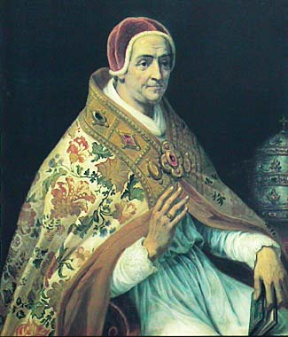 Portrait of Antipope Clement VII